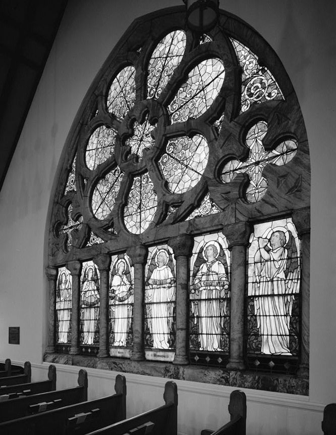 Rose window on the south wall of St. John's Cathedral in Knoxville, Tennessee, USA, photographed by the Historic American Buildings Survey in 1983.